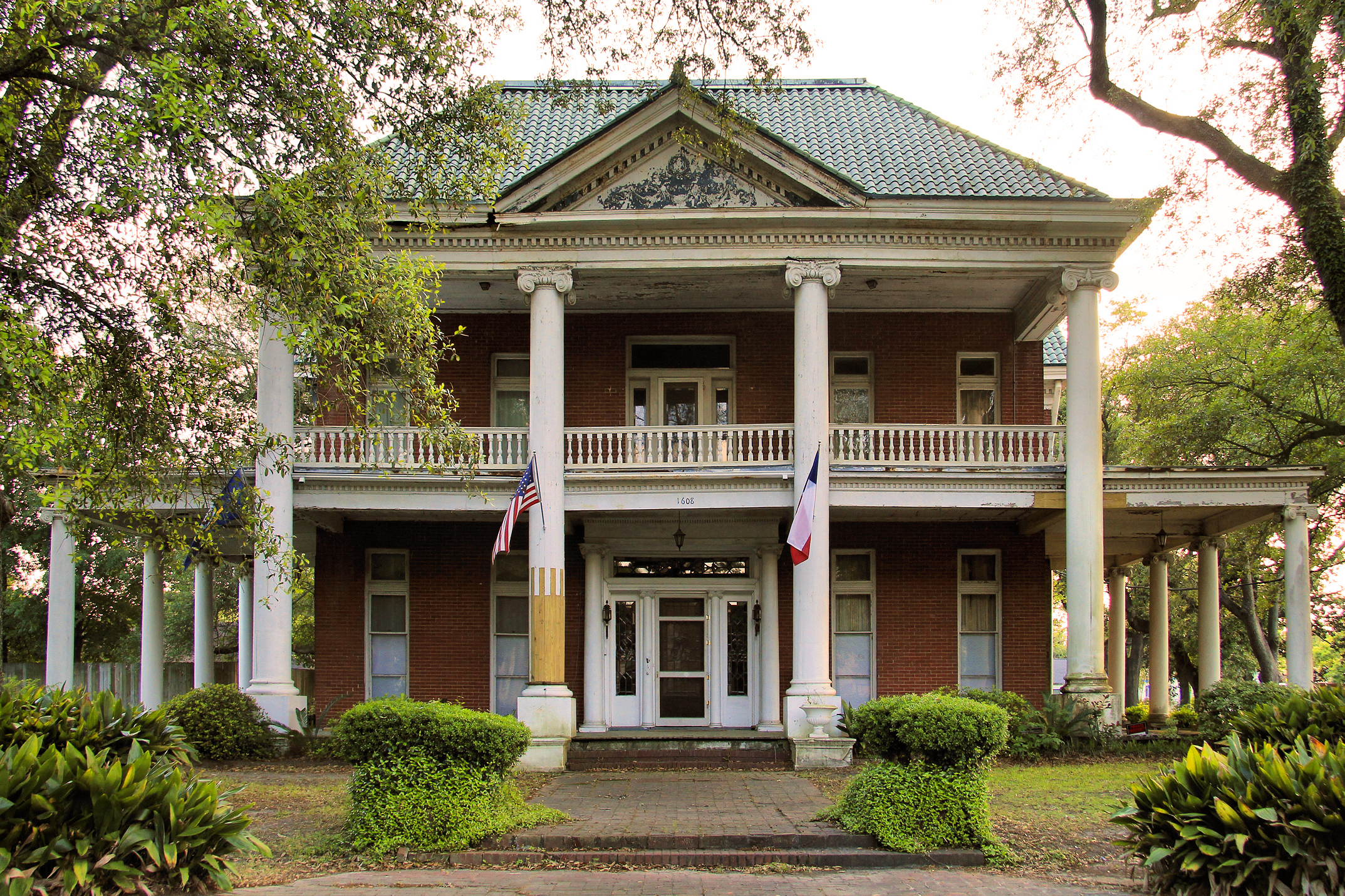 "Idle Hours" in Beaumont, Texas, United States. The house was listed on the National Register of Historic Places on May 22, 1978.